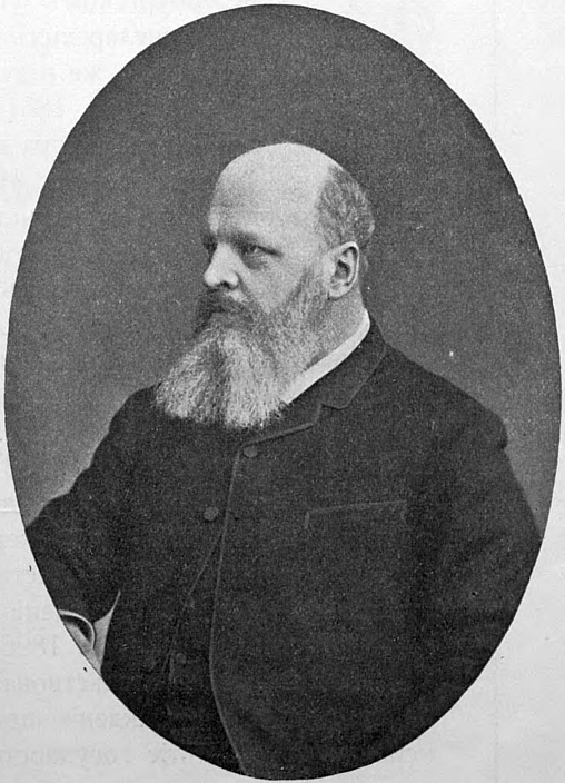 Dmitri Solsky